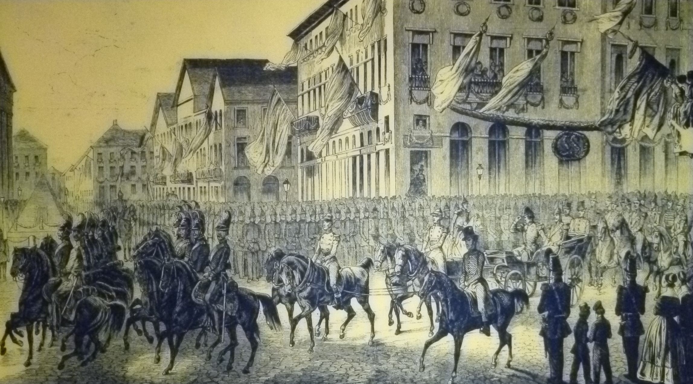 Victorious return of the Grand Duke Leopold in Karlsruhe on 18 August 1849